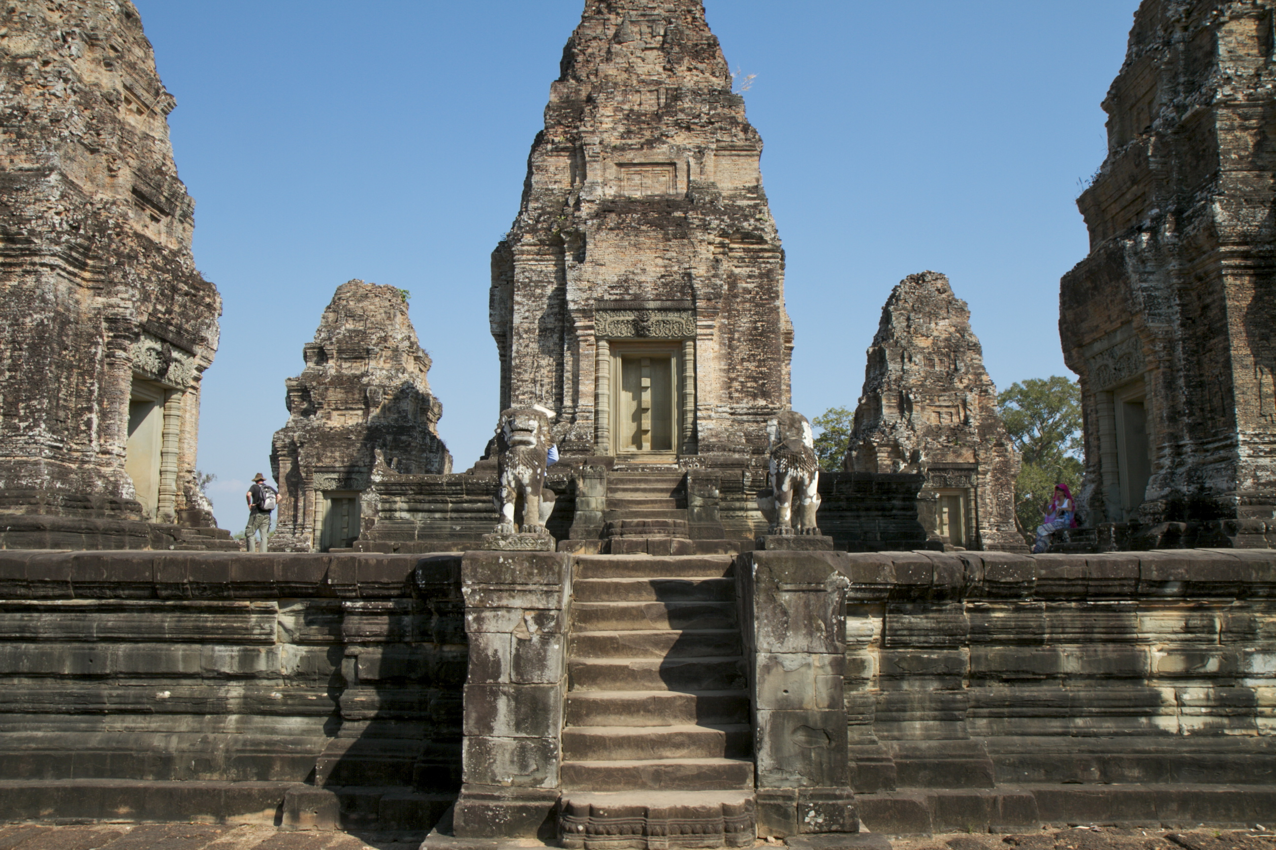 East Mebon